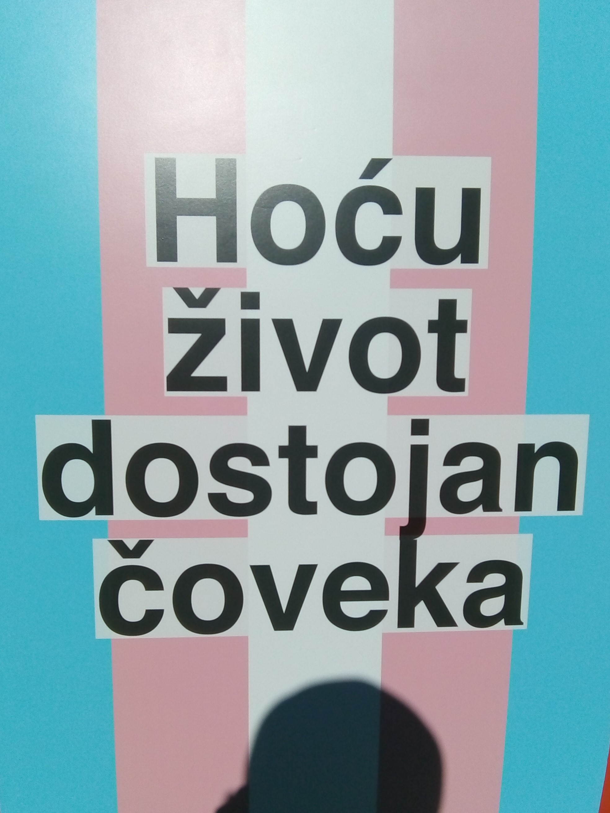 The fifth Pride Serbia under the slogan "The battle is still ongoing – join in" took place June 29, 2019 in Belgrade, Serbia, and was organised by Egal, GLIC and Loud & Queer.Location: Serbia, BelgradeEvent type: Pride Serbia 2019Date or year: 2019-06-29